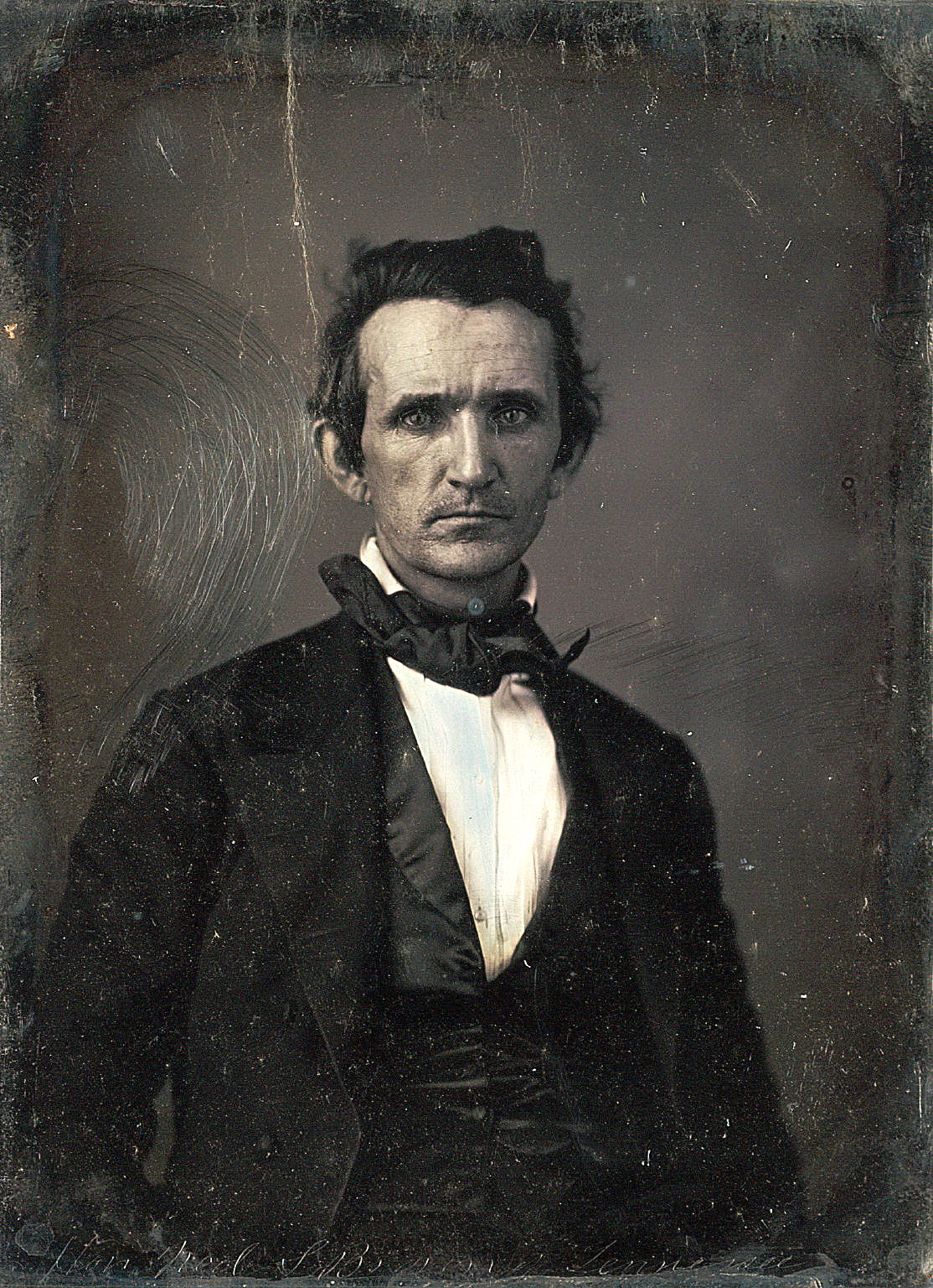 Daguerreotype portrait of Tennessee politician Neill Smith Brown, taken by photographer Mathew Brady in March 1849 at the United States Capitol in Washington, D. C. Courtesy of the Beinecke Rare Book & Manuscript Library, Yale University.[1]